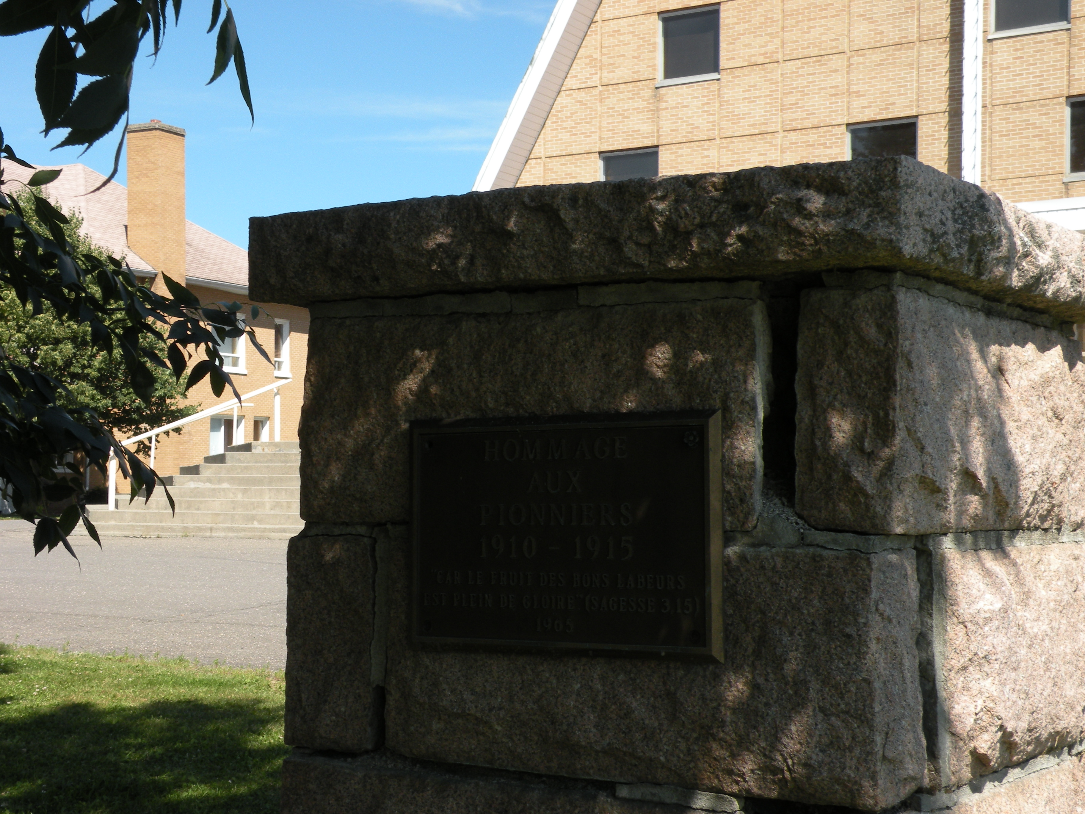 Monument to the founders of Kedgwick, New Brunswick, Canada.